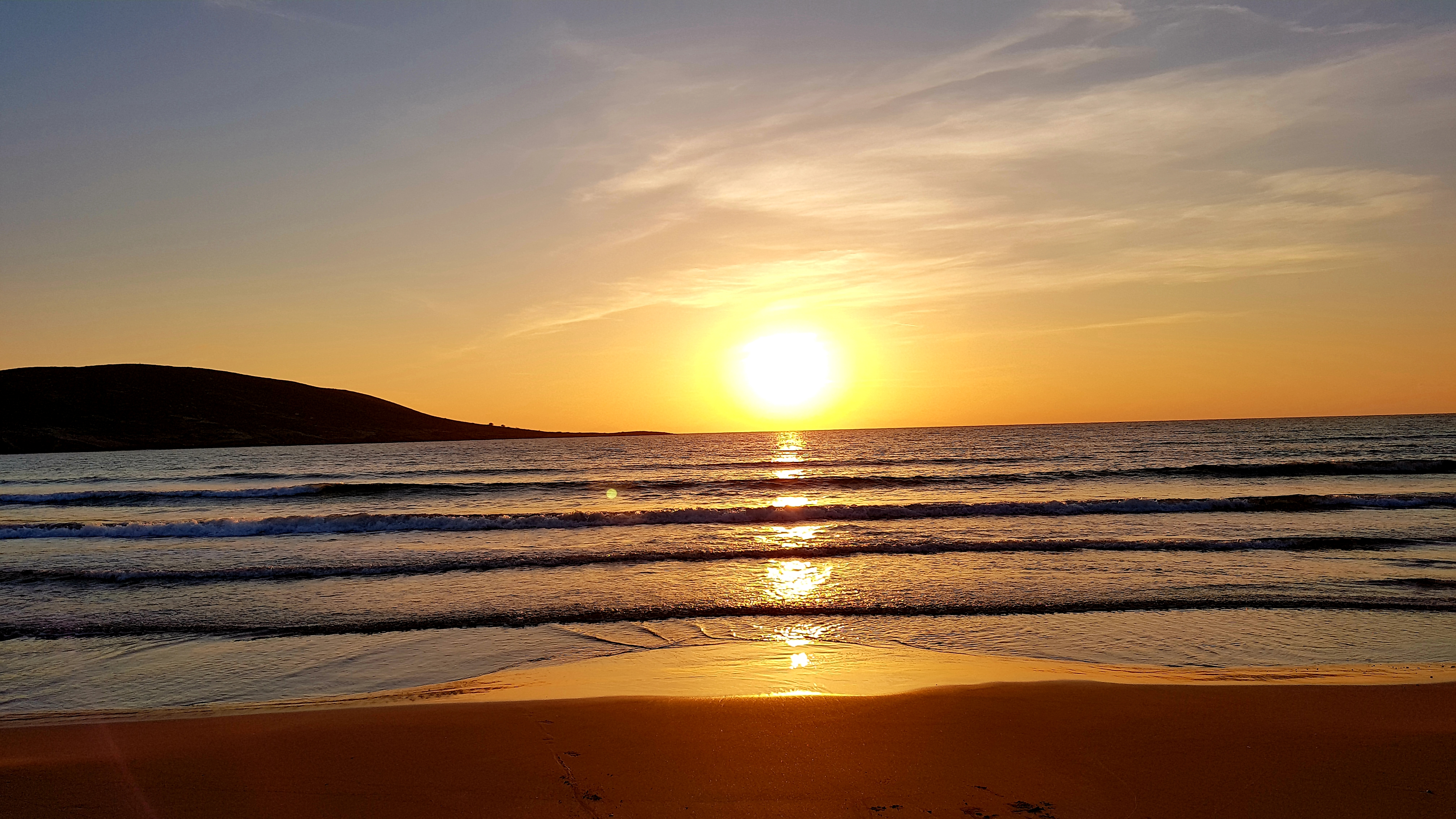 This is a photography of Natura 2000 protected area with ID GR4210031